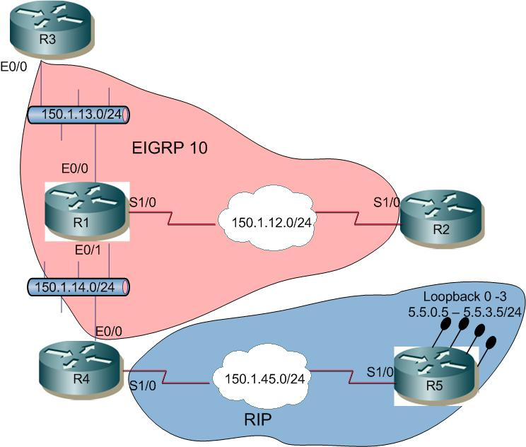 EIGRP